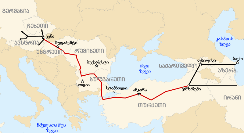 Path of the Nabucco pipeline, between the Caspian Sea and Western Europe. It get round Russia. Nabucco Gas pipeline Other Gas pipeline